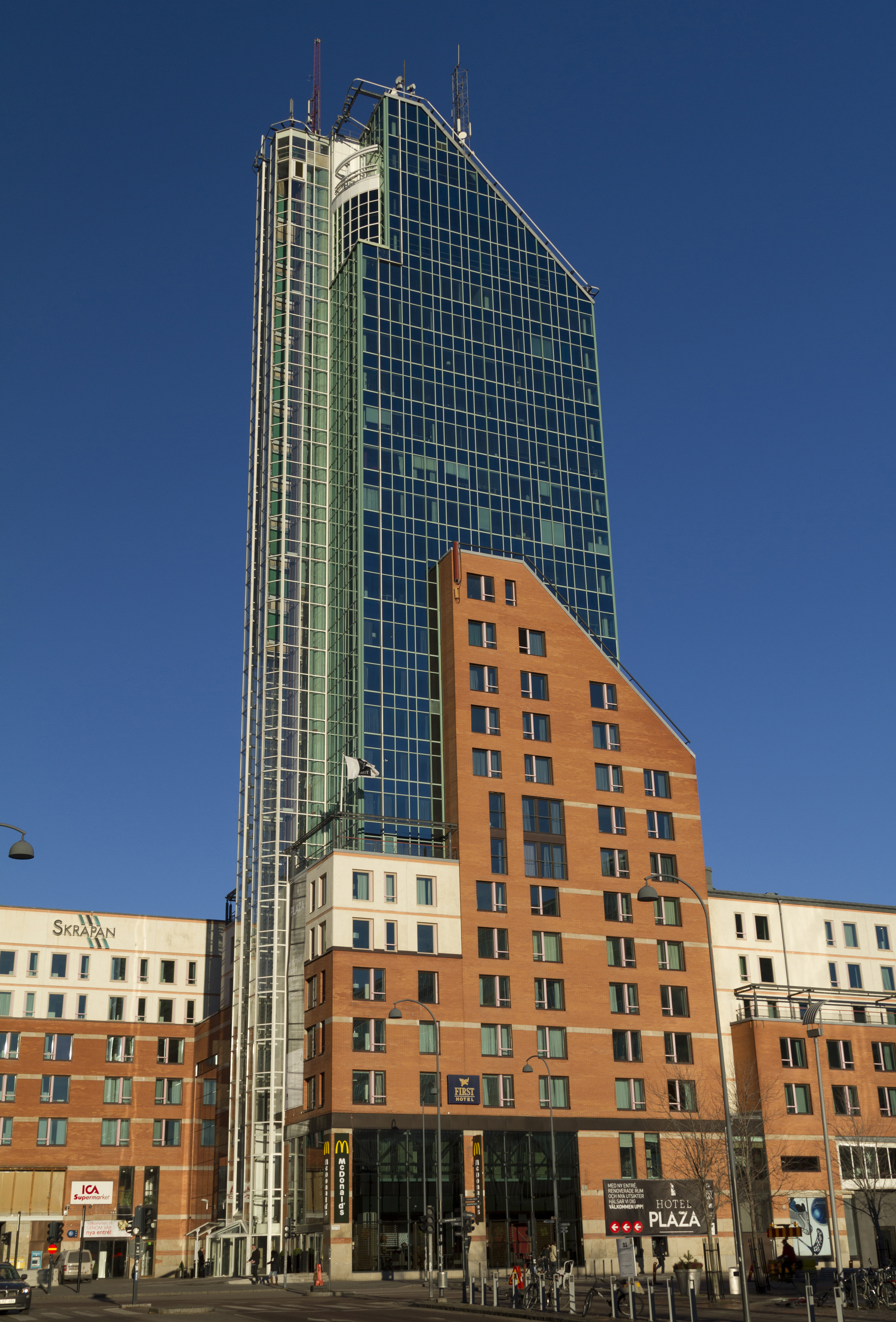 The famous skyscraper in Västerås Sweden